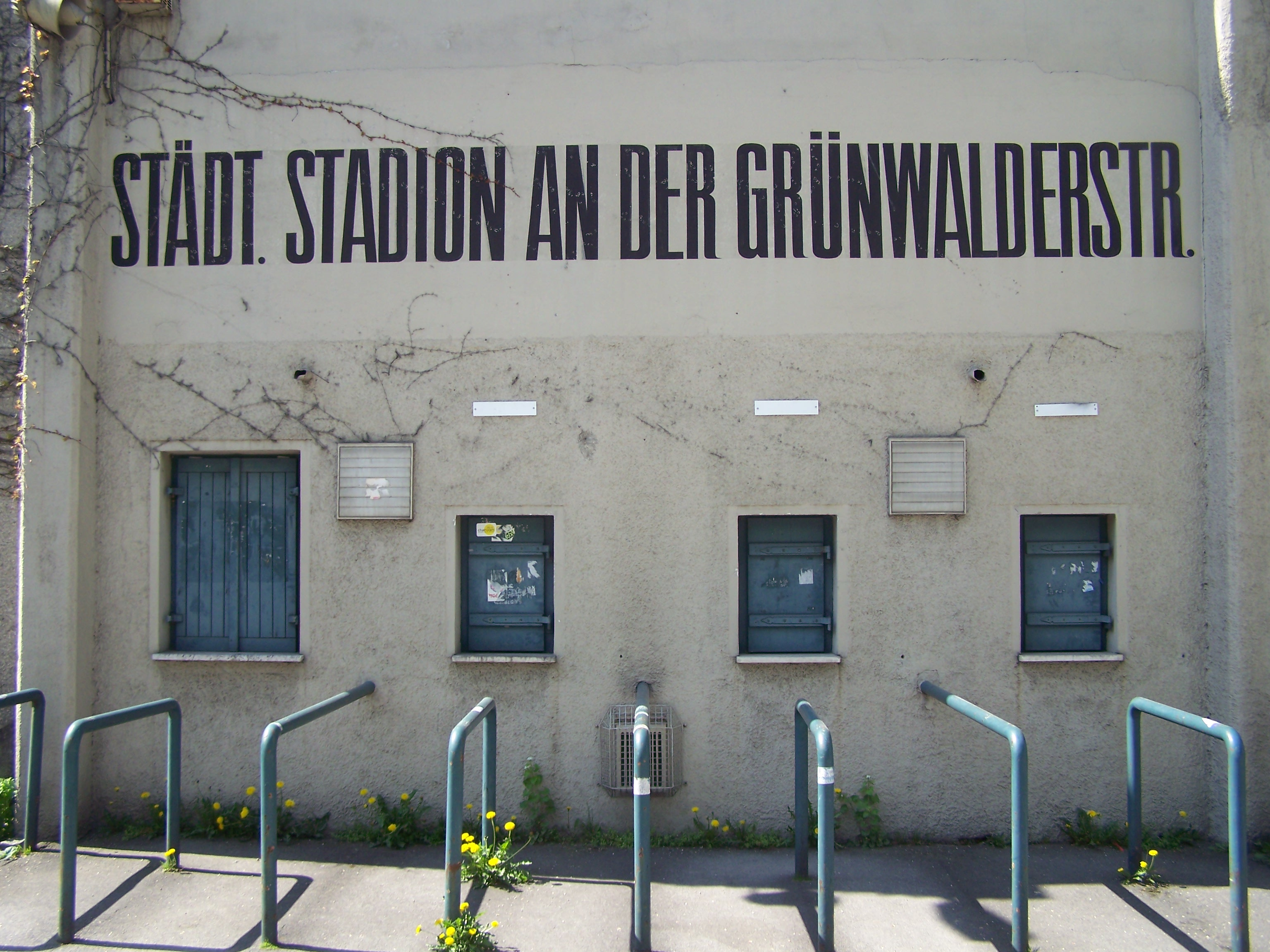 box office under the north-east corner of the Städtische Stadion an der Grünwalder Straße in Munich